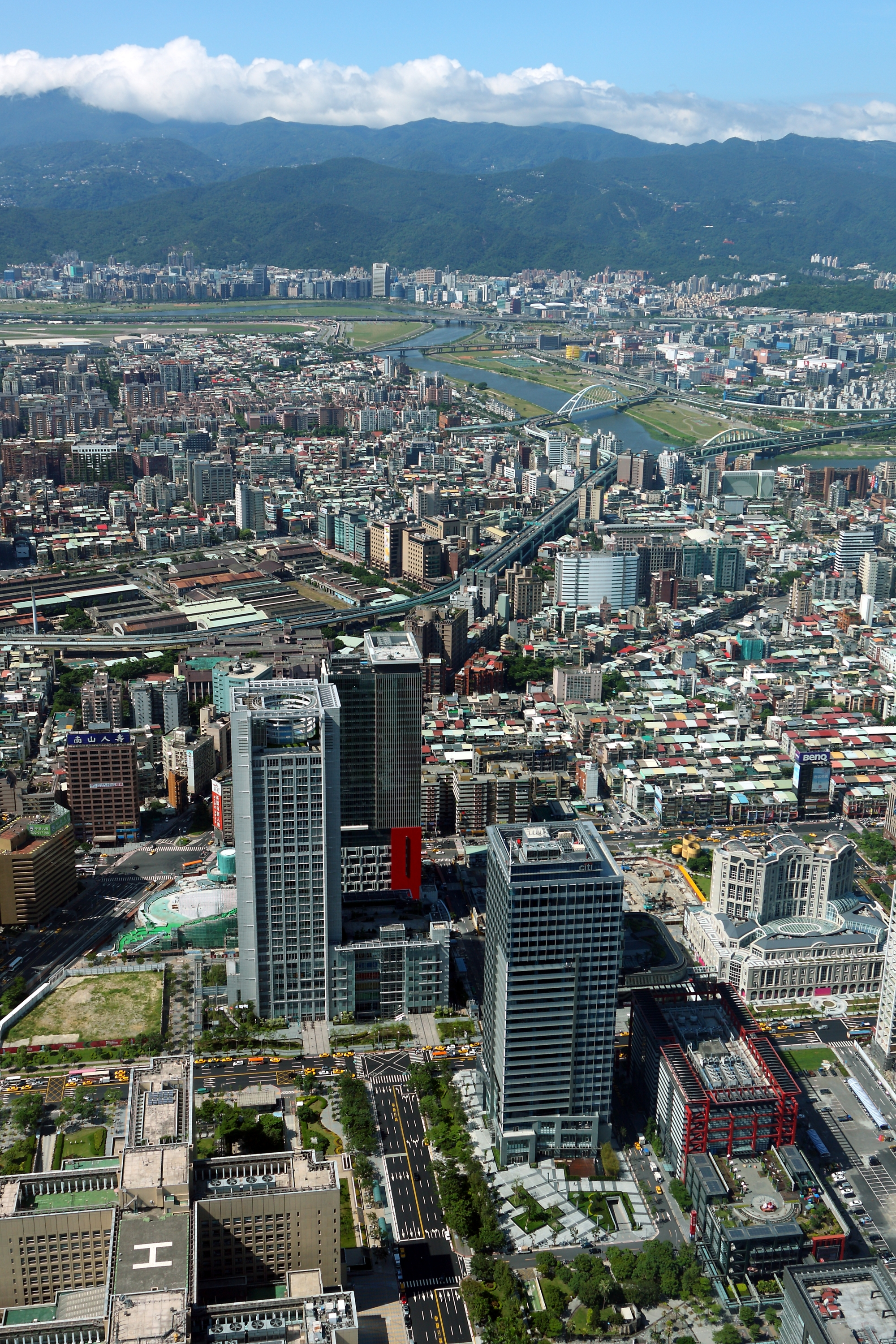 View to the north from Taipei 101